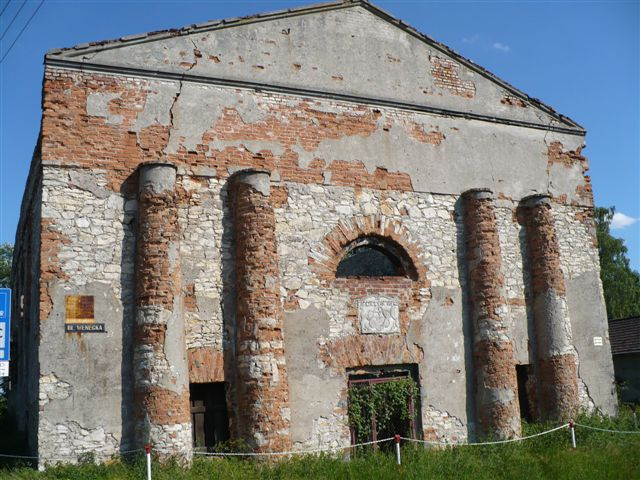 Synagogue in Krzepice